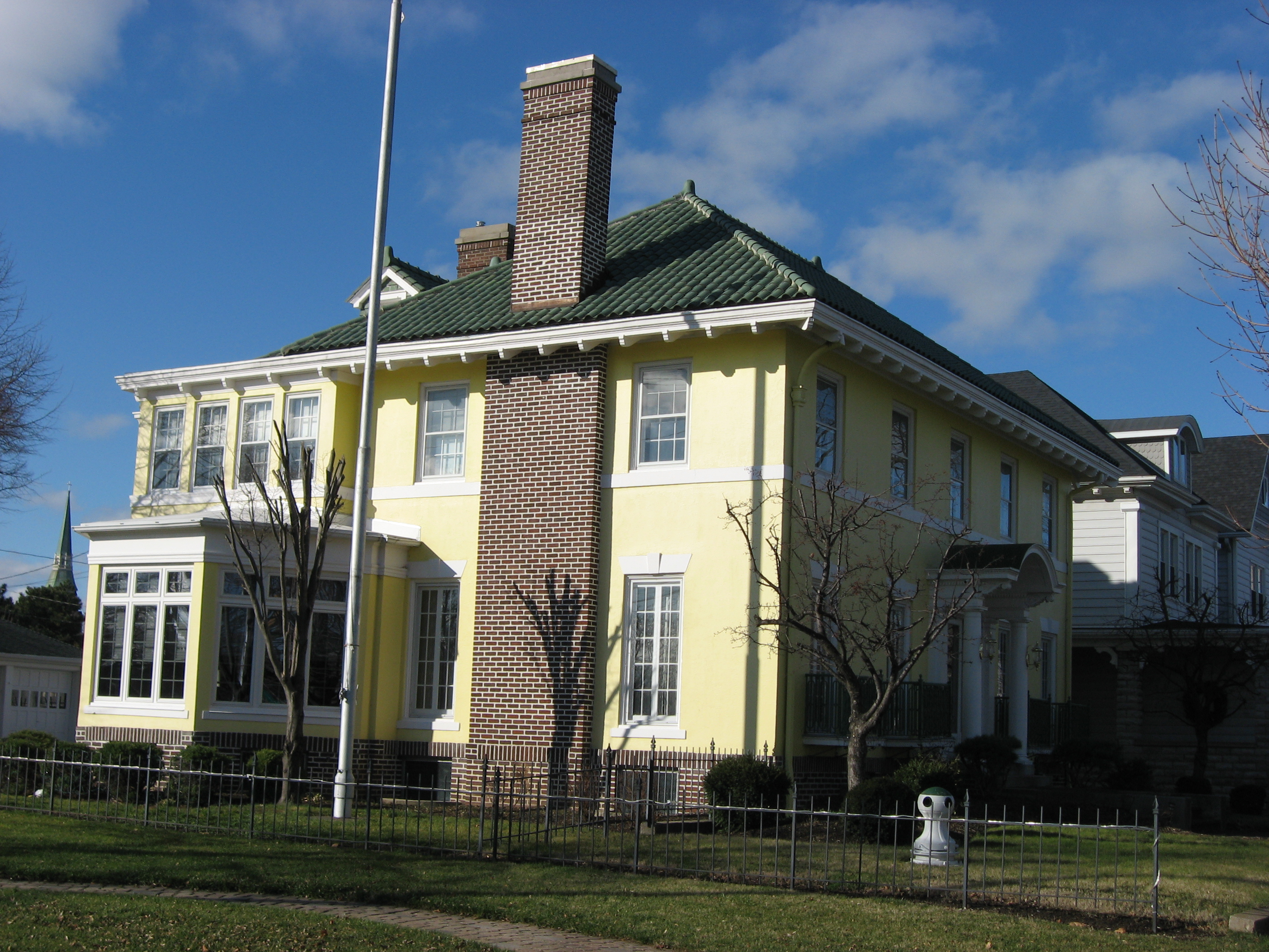 Front and southern side of the John Stang House, located at 629 Columbus Avenue in Sandusky, Ohio, United States. Built in 1922, it is listed on the National Register of Historic Places.